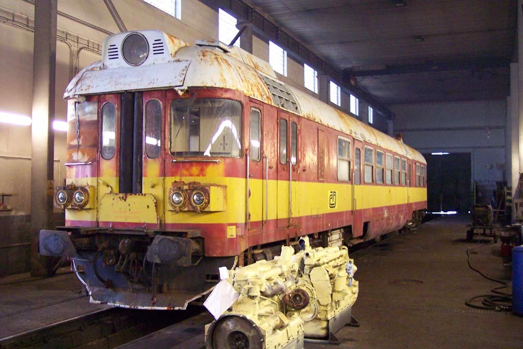 Rail car class 680 laid up in PP Meziměstí